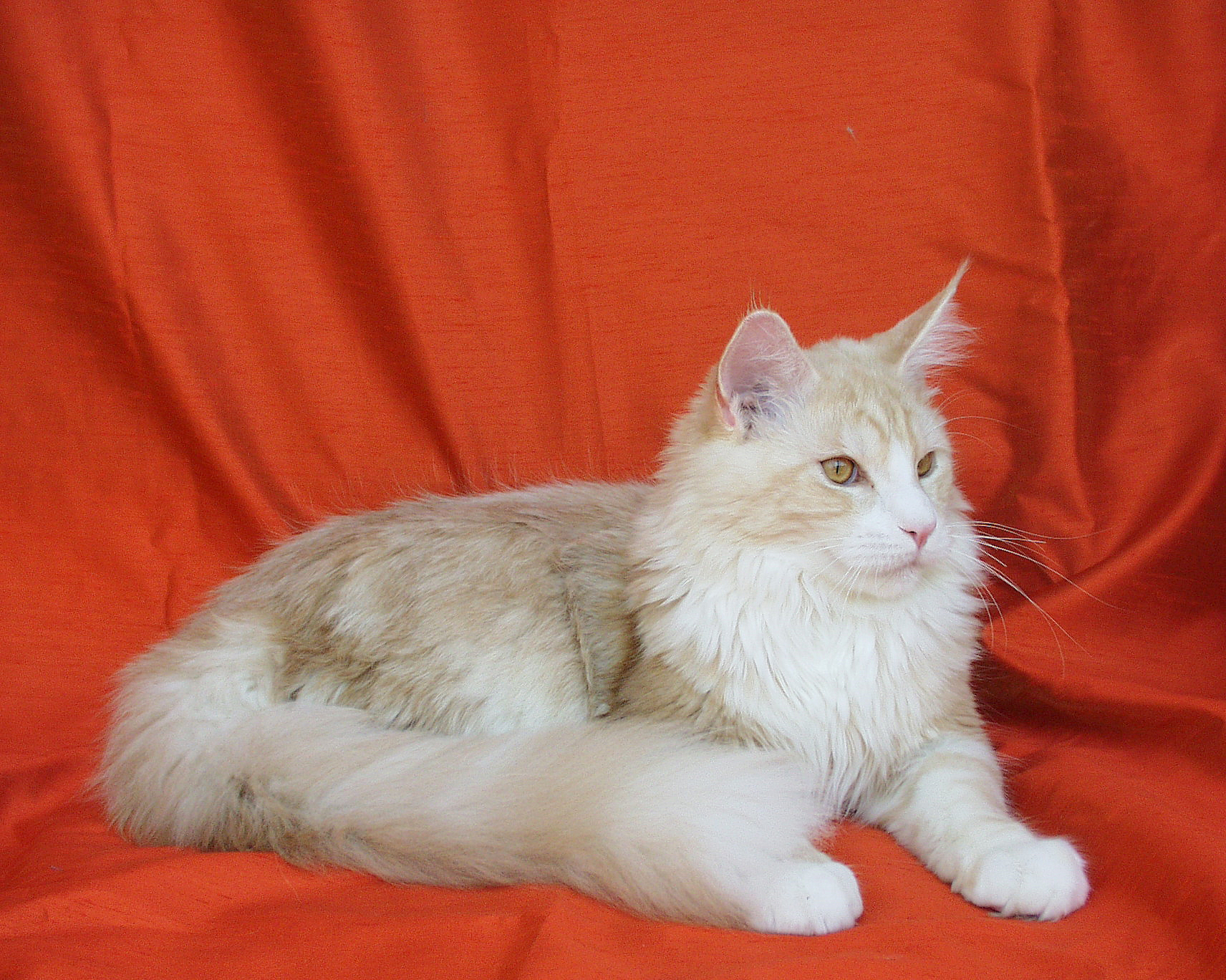 a juvenile Maine Coon male in red-silver-blotched-tabby/white; FIFe-EMS-Code: MCO ds 09 22